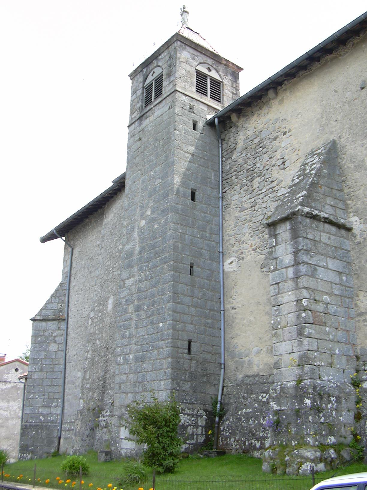 Saint-Côme (St Cosmas) church in Fournols (Puy-de-Dôme, Auvergne, France), XIIIth-XVth centuries.